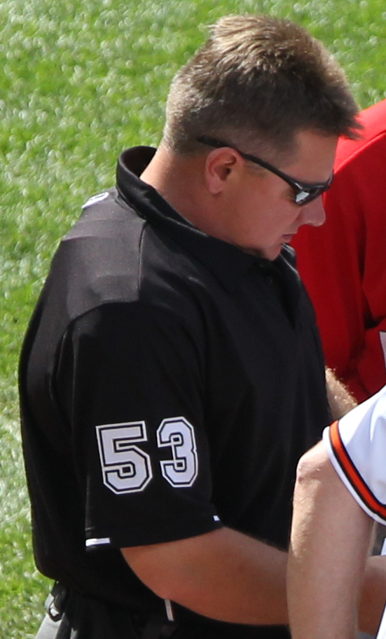 MLB umpire Greg Gibson, May 21, 2011